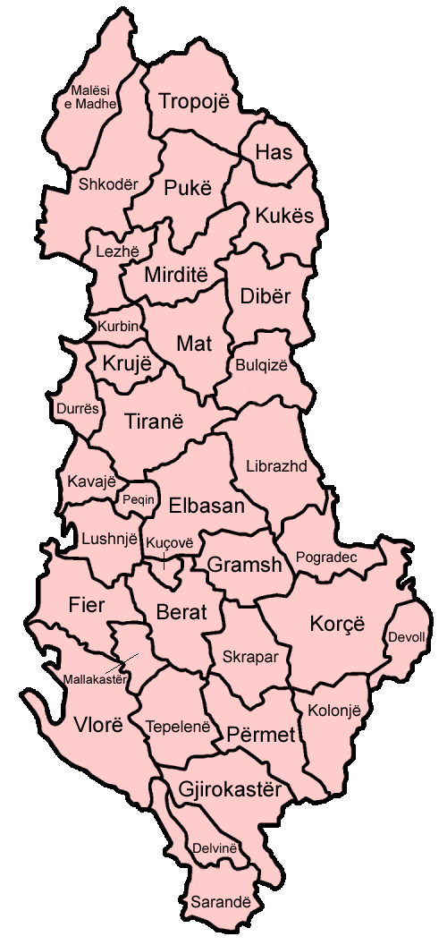 Map of the districts of Albania, named with ISO standard names. Made by User:Golbez.